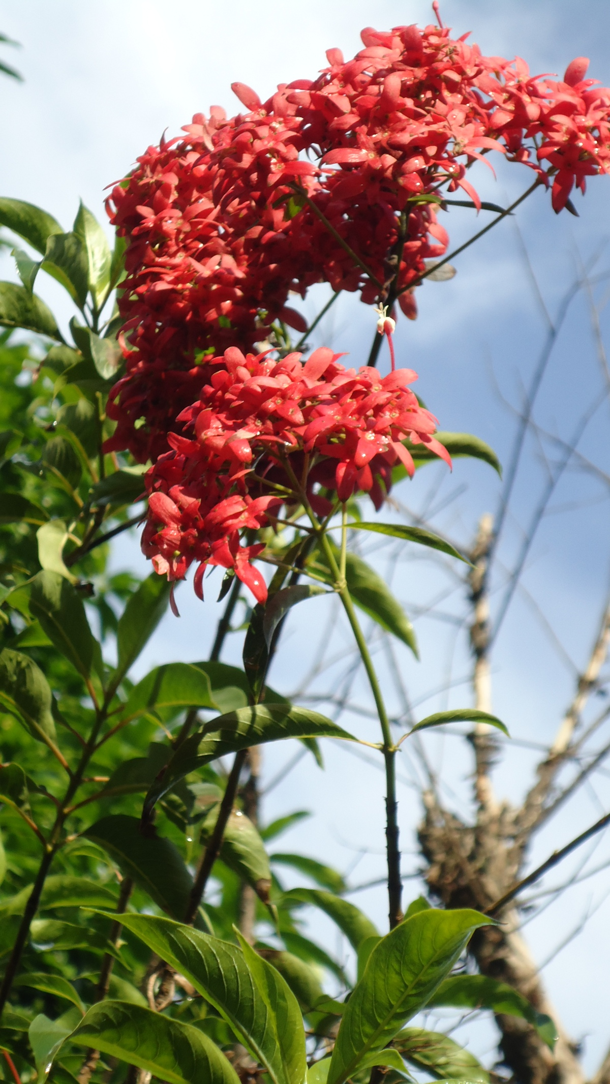 Carphalea kirondron